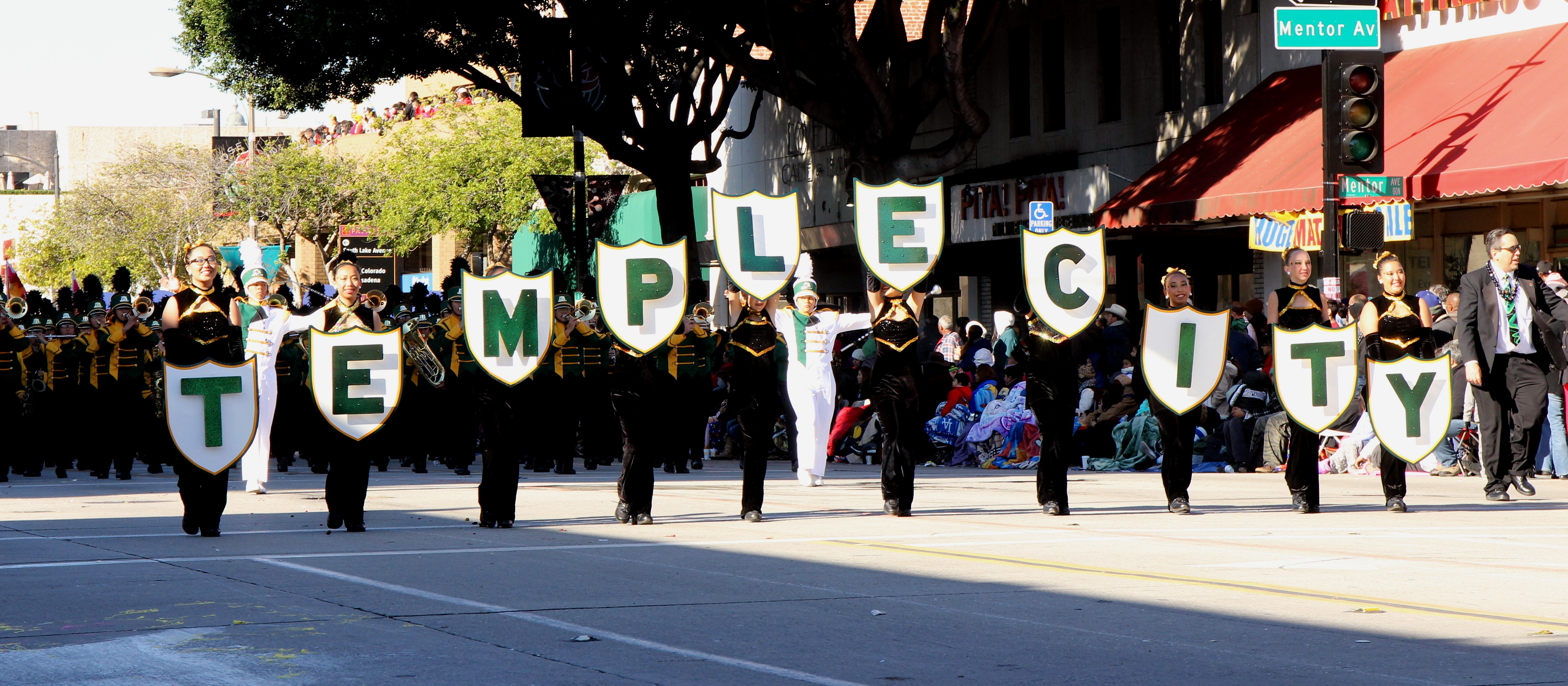 The Pride of Temple City Marching Band Rose Parade 2015 Pasadena, California